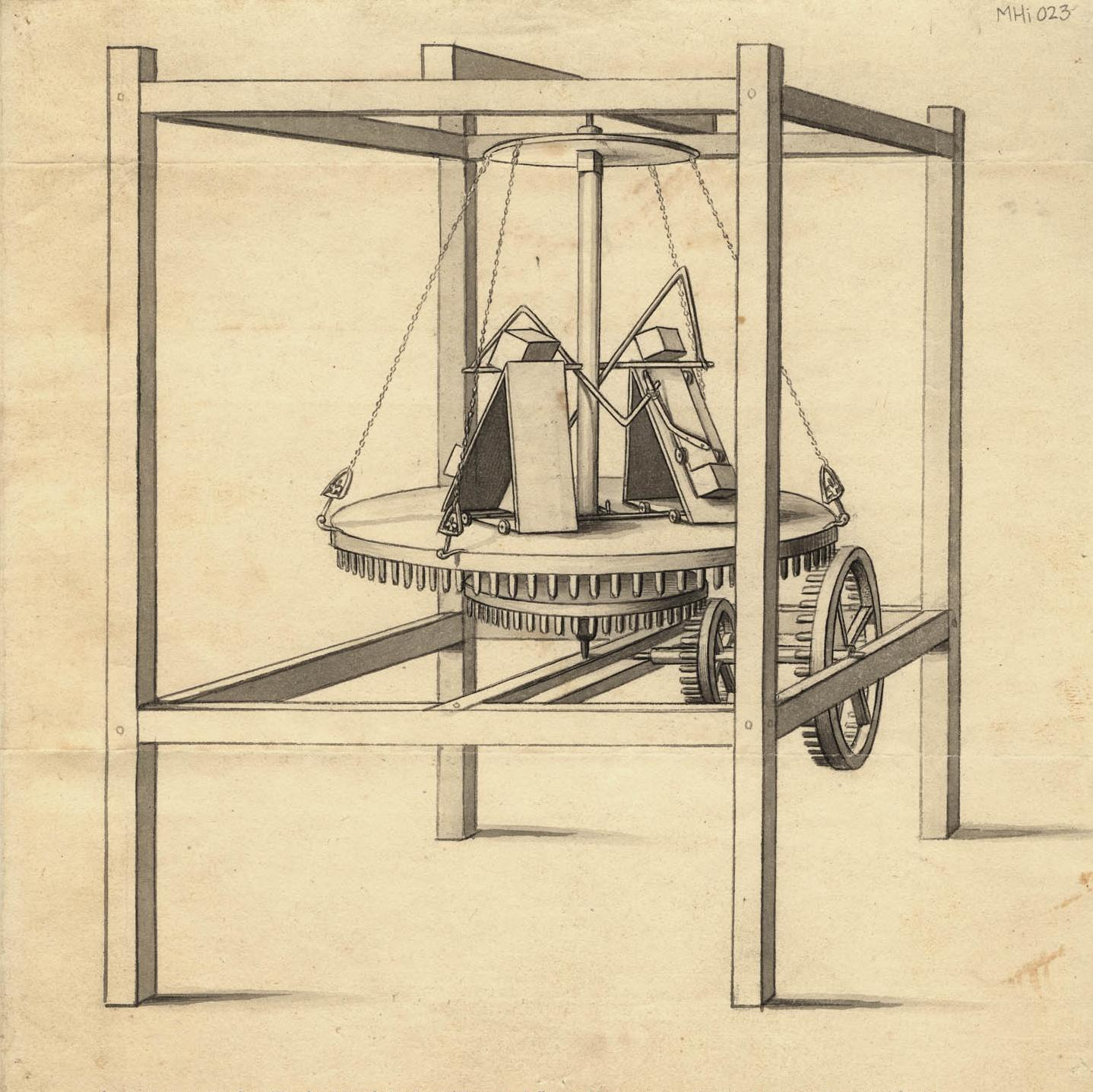 A diagram showing the design of Charles Redheffer's machine